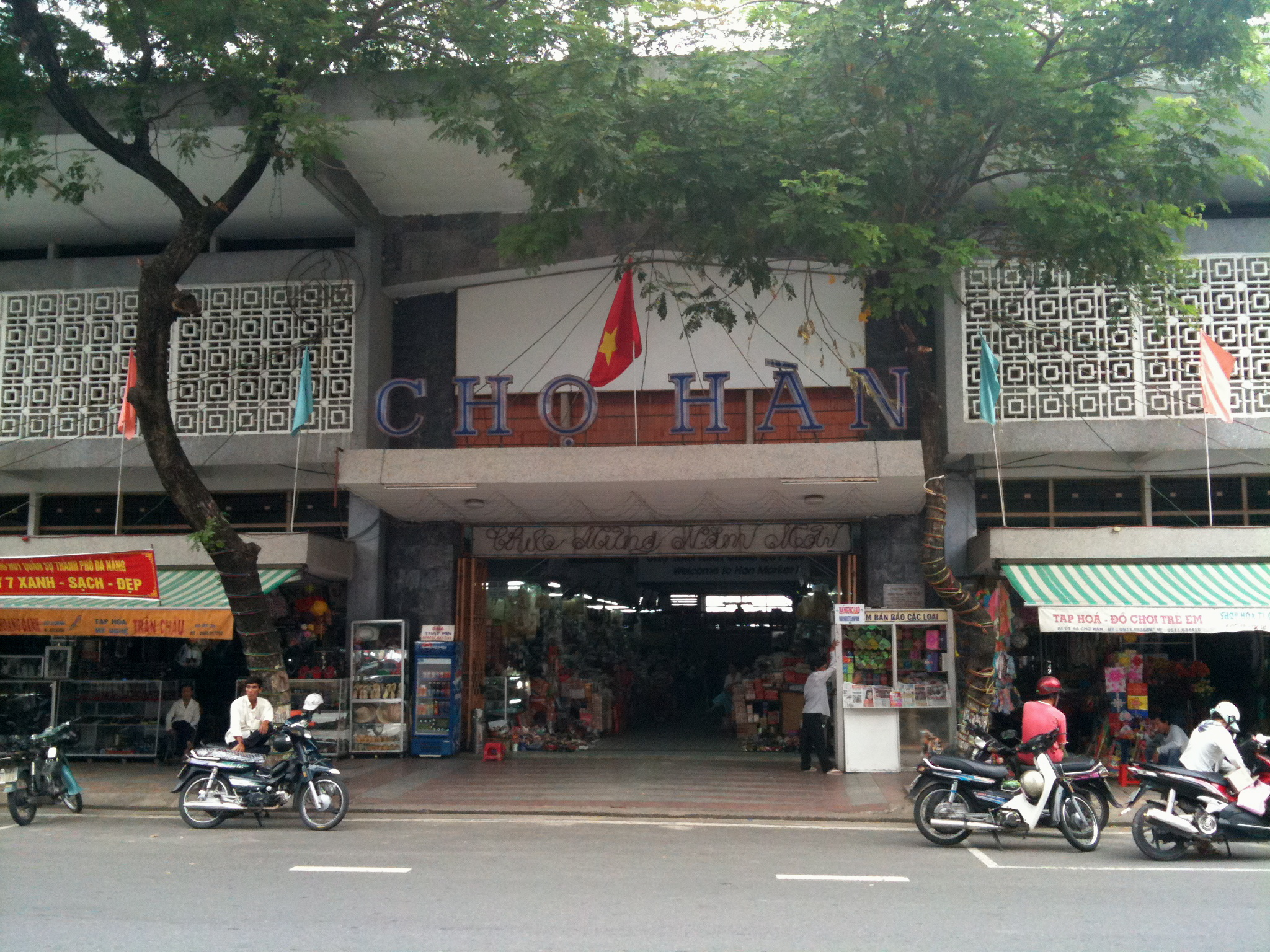 The main entrance to Han Market, Da Nang, Vietnam.